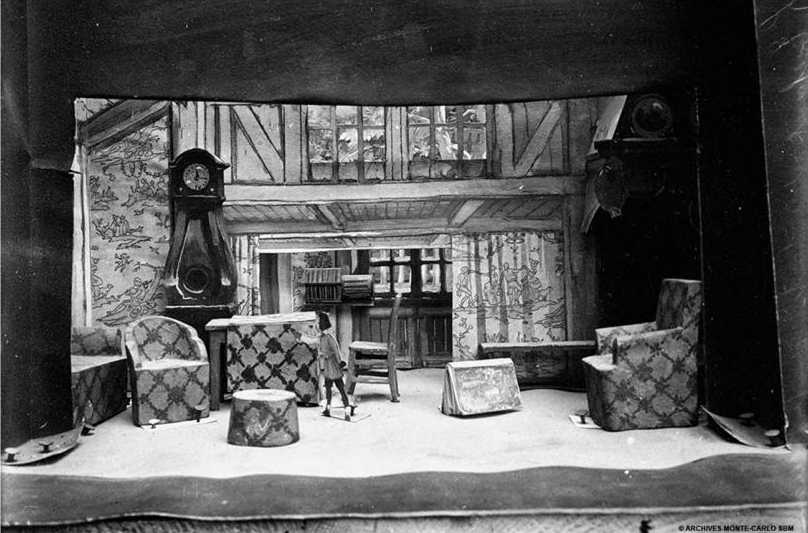 Scenery by Alfonso Visconti for Ravel's opera L'enfant et les sortilèges, Monte Carlo 1925